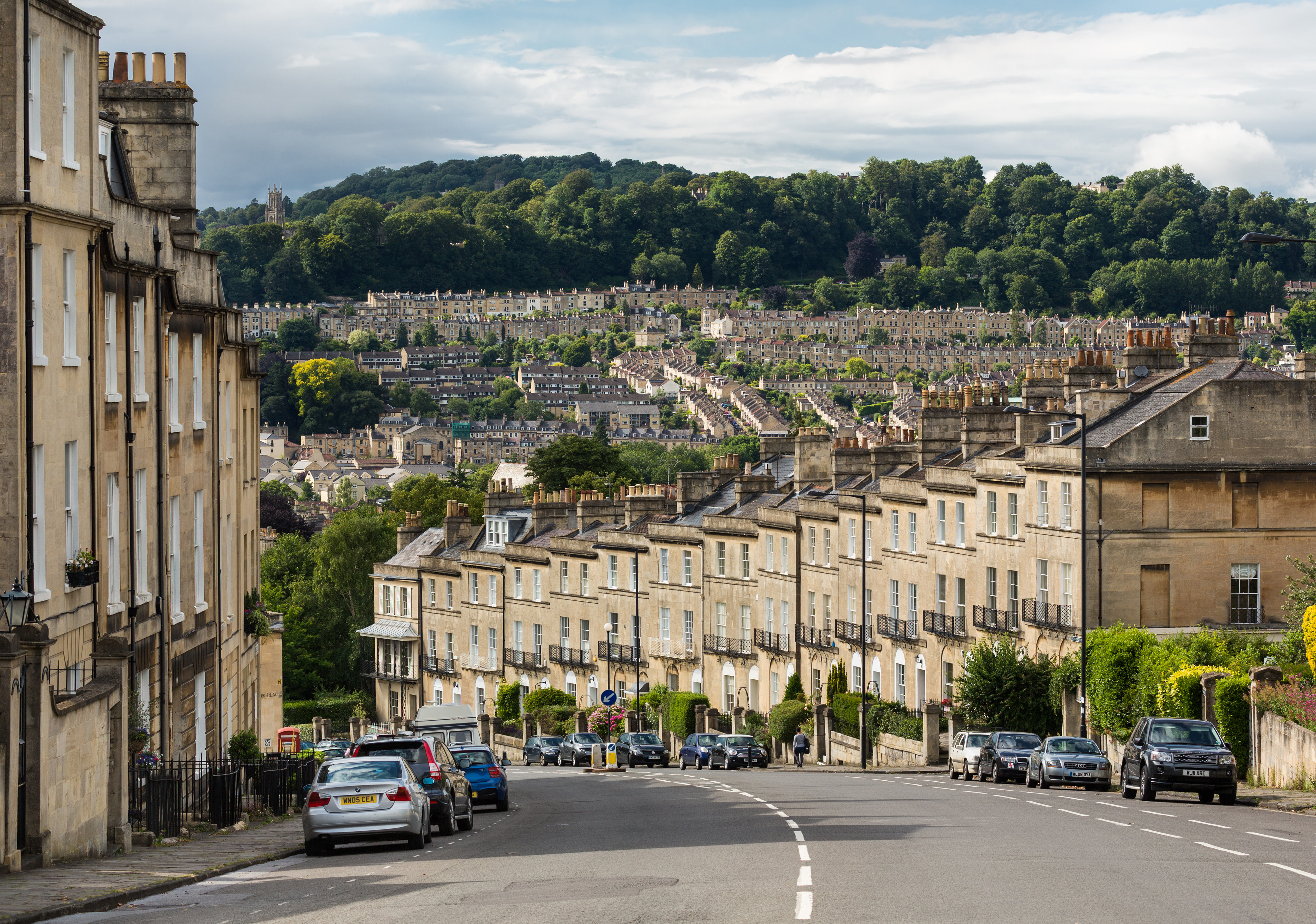 The typical Georgian architecture of Bath, Somerset, as viewed looking north-west from Bathwick Hill.